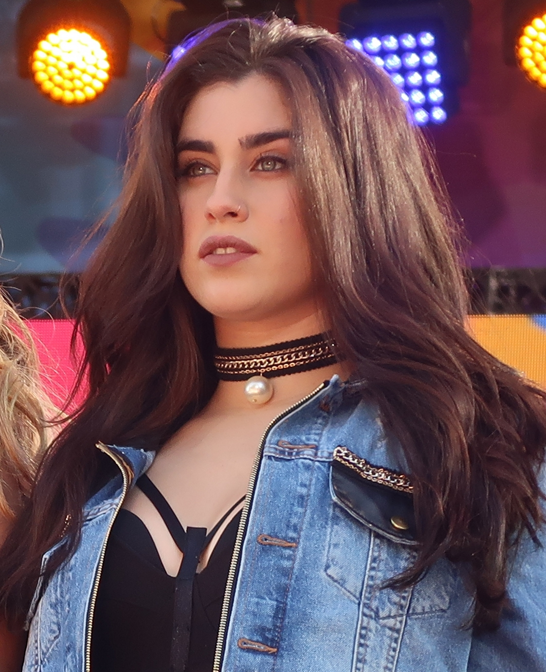 Lauren Jauregui on Good Morning America in NYC on June 2nd, 2017.